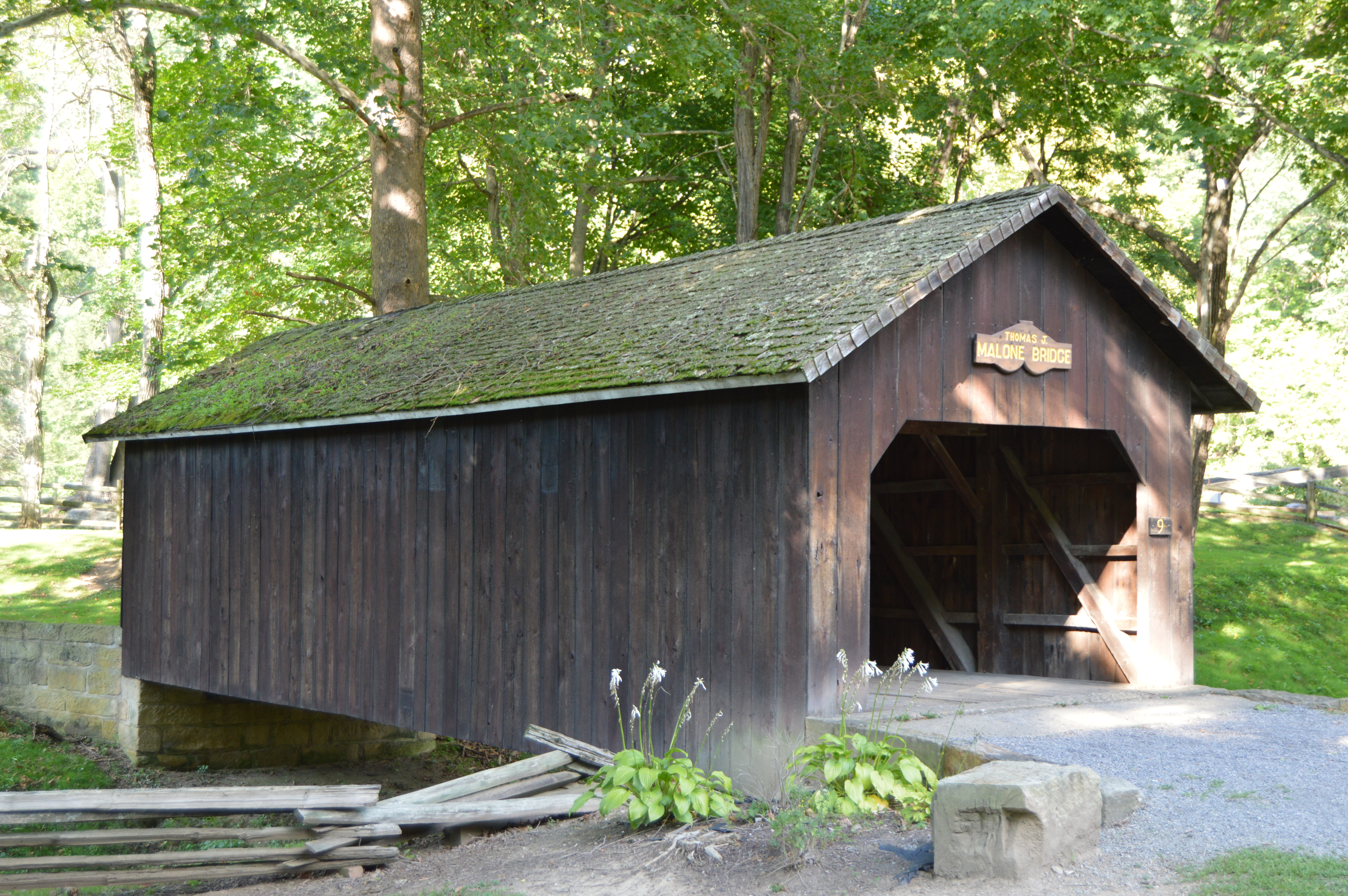 View from the west of the Thomas J. Malone Covered Bridge, located along Echo Dell Road within Beaver Creek State Park in Middleton Township, Columbiana County, Ohio, United States. It was built in 1870.